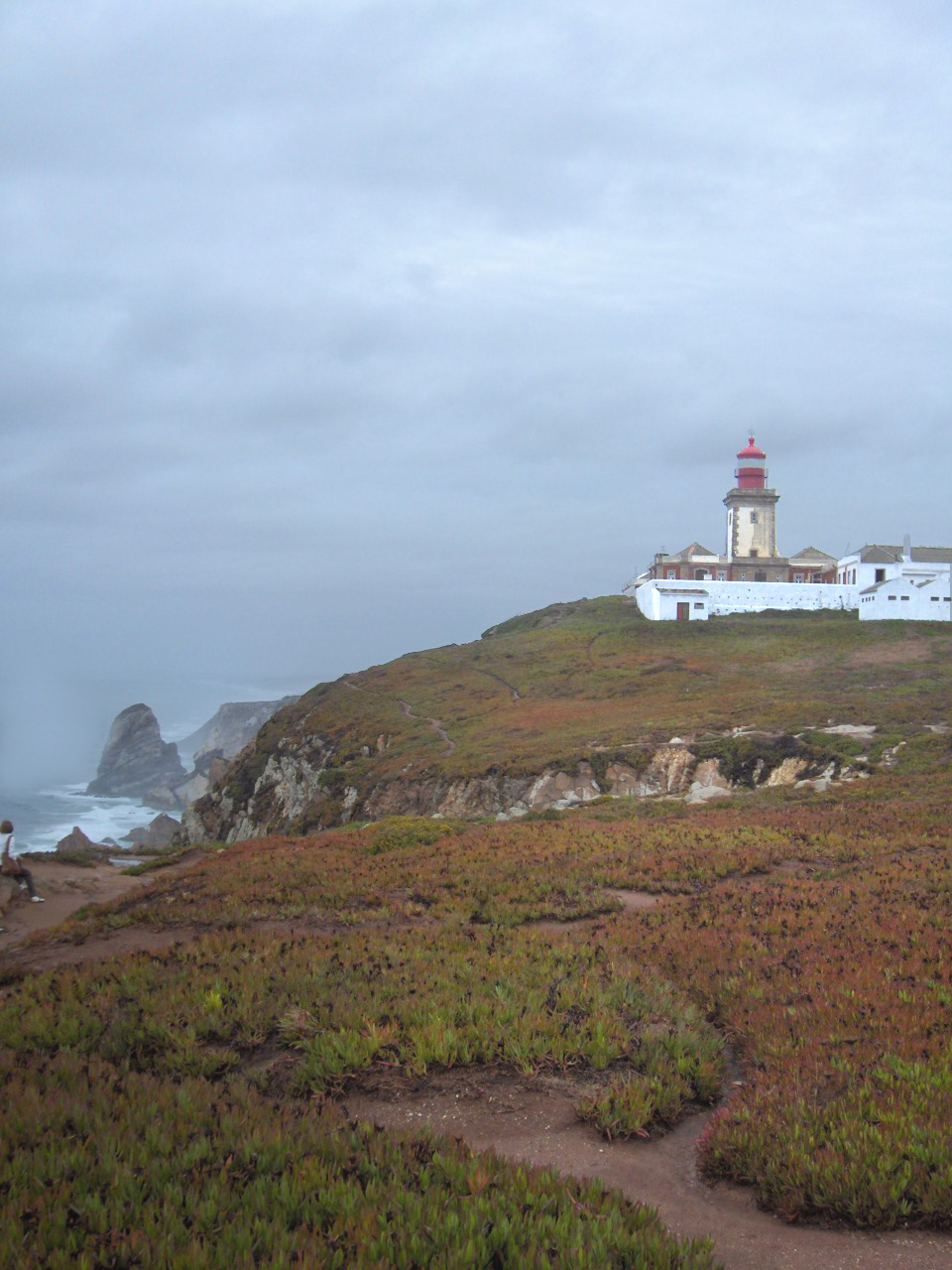 Cabo da Roca, westernmost point of Portugal; near Sintra